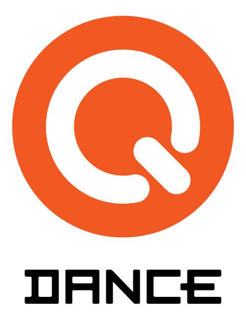 Logo of Q-dance